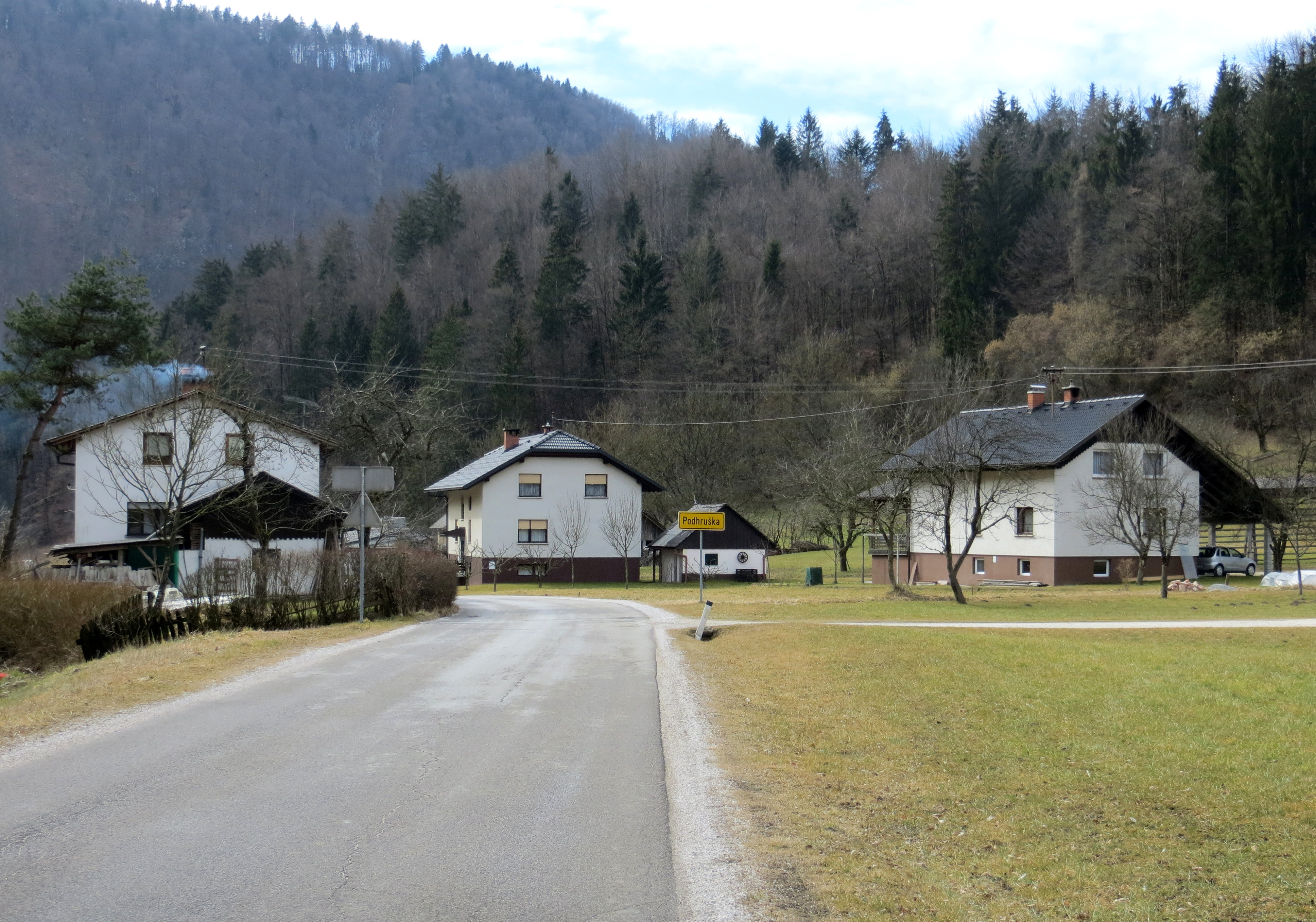 Podhruška, Municipality of Kamnik, Slovenia